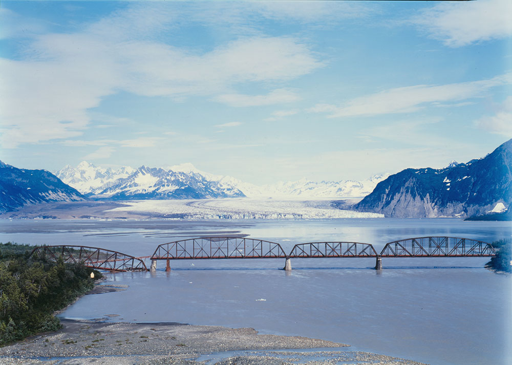 Miles Glacier Bridge, showing damage sustained in the Good Friday Earthquake (1964) as well as temporary repairs.